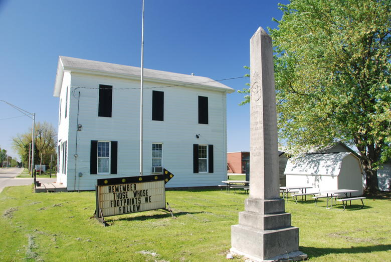 War memorial in Groveland, Illinois, adjacent to since-replaced Groveland Township hall, 173 Washington Street, at northwest corner with Springfield Road; in background, former Groveland School (now Heartland Christian Fellowship)